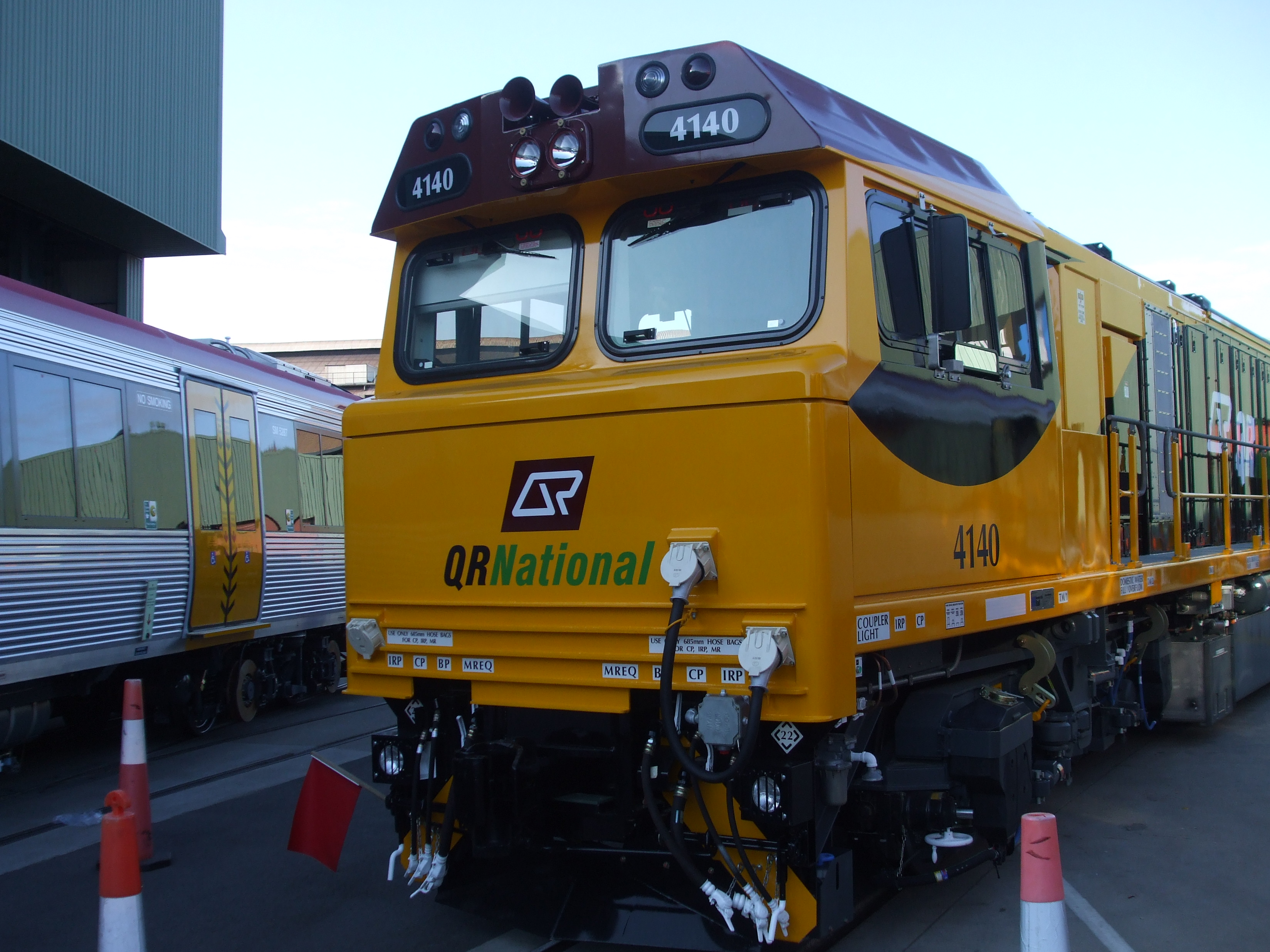 QR National 4140 locomotive